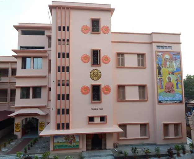 Nivedita Bhawan of Baranagore Ramakrishna Mission Ashrama High School